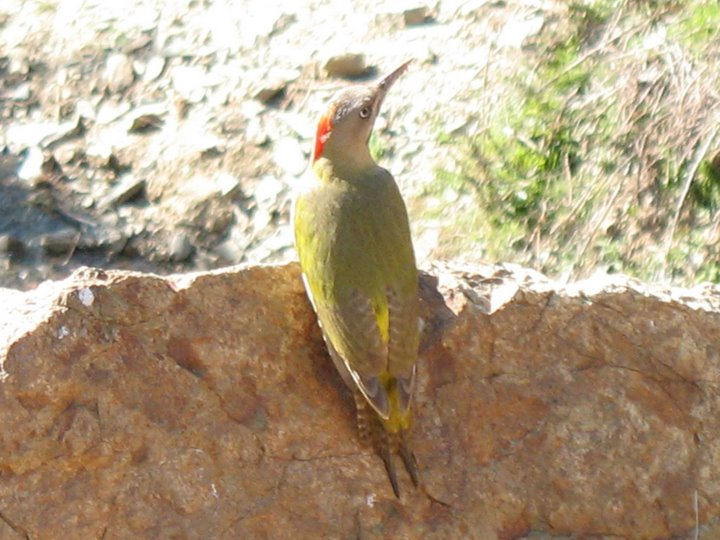 Female Picus vaillantii, picture taken close to Tizi Oussen (west of Imlil), Morocco